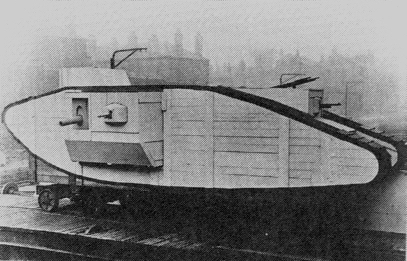 Photograph of wooden mockup for original Mk V tank design, July 1917